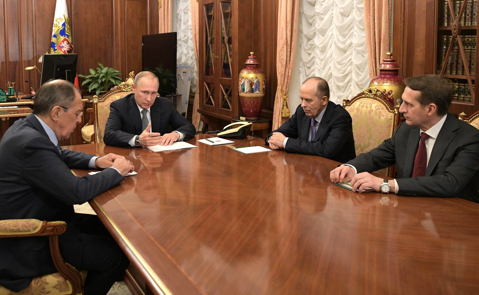 Russian President Vladimir Putin meeting with Minister of Foreign Affairs Sergey Lavrov, the Foreign Intelligence Service Director Sergei Naryshkin and Director of the Federal secret service, Alexander Bortnikow.